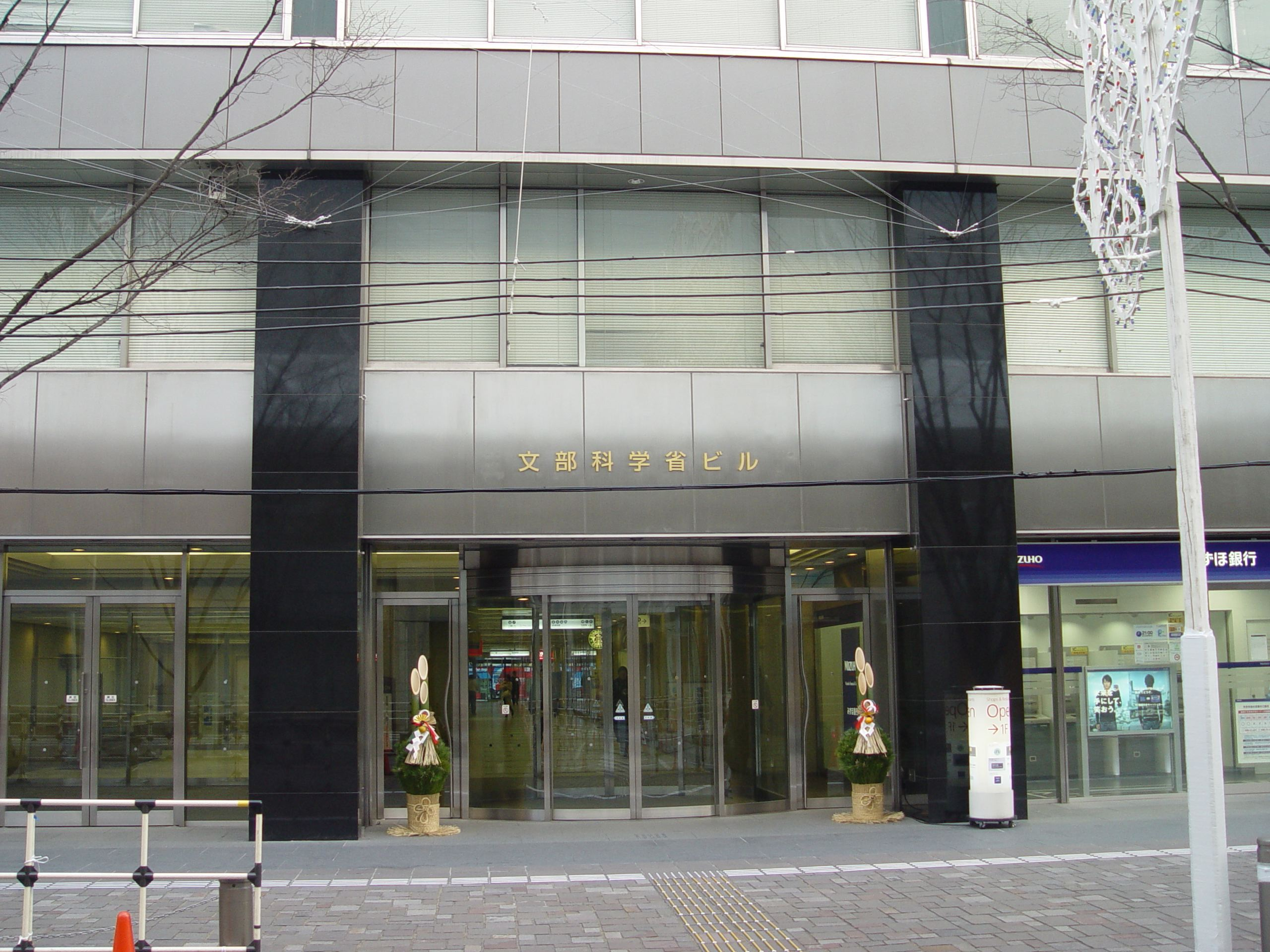 Public office building of Japan: The Ministry of Education, Culture, Sports, Science and Technology Agency for Cultural Affairs Japanese National Commision for UNESCO National institute of Science and Technology Policy National educational policy laboratory 庁舎： 文部科学省 文化庁 日本ユネスコ国内委員会 科学技術政策研究所 国立教育政策研究所